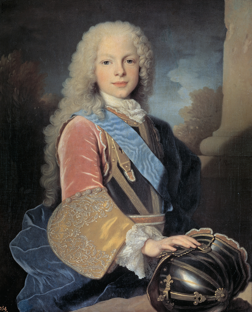 Portrait of the Prince of Asturias, the future Fernando VI of Spain, done at the same time as a known portrait of the Portuguese princess D. Bárbara de Bragança by Domenico Duprà, two years after their formal betrothal on the 11th of January 1723